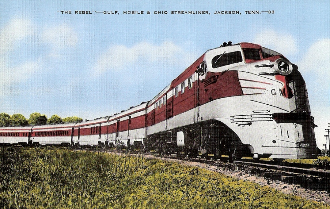 Postcard photo of The Rebel in Jackson, Tennessee.